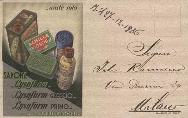 Postcard advertising varieties of Lysoform soap produced by Achille Brioschi & C.